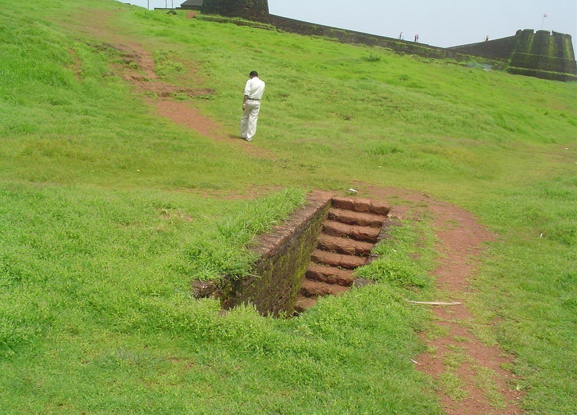 photographed by Pratheepps